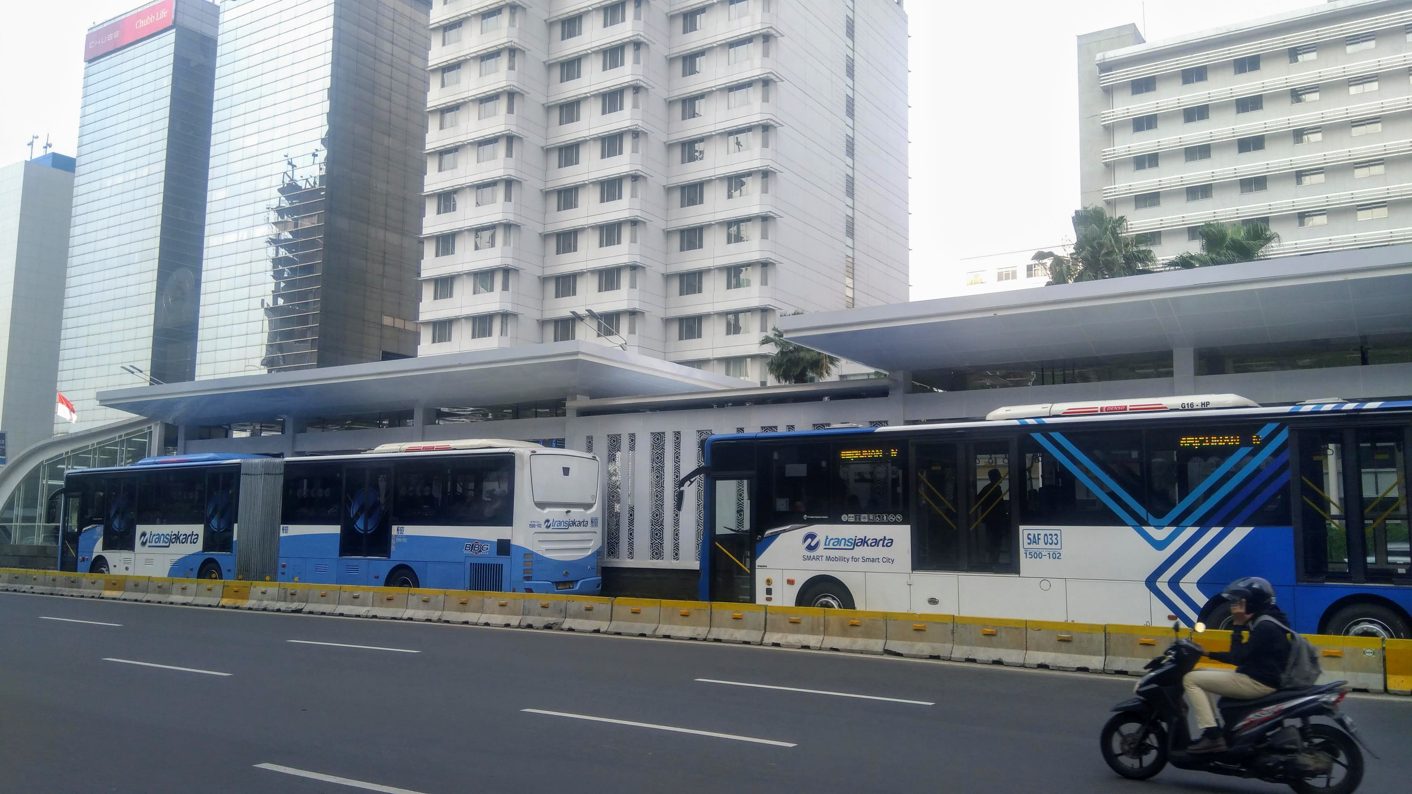 Two TransJakarta buses at Bundaran HI new shelter